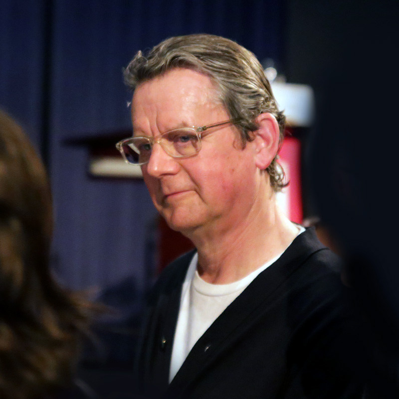 Jeff Wall at the 2014 Paris Photo fair in Los Angeles.